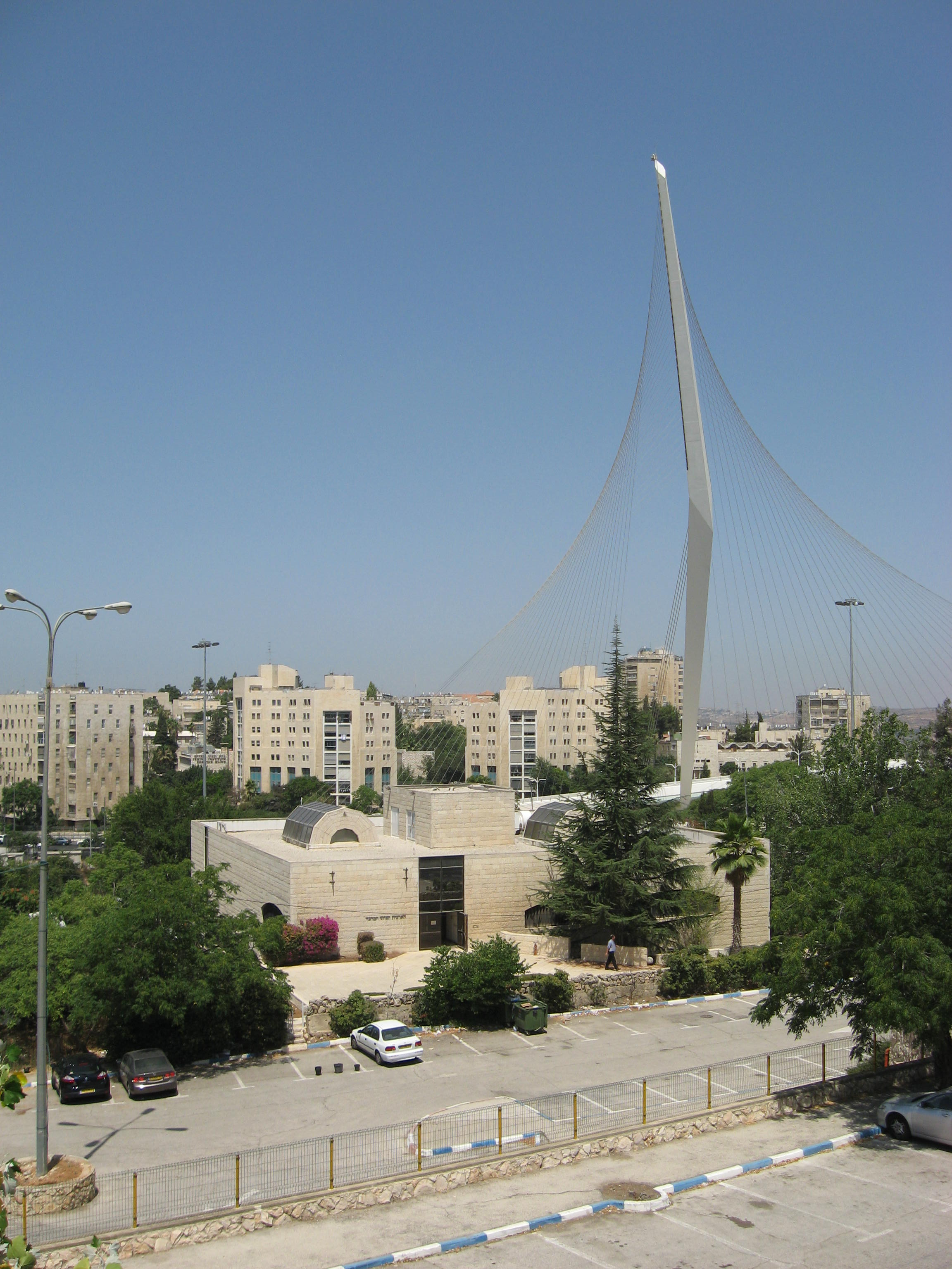 Central Zionist Archives and Chords Bridge in Jerusalem